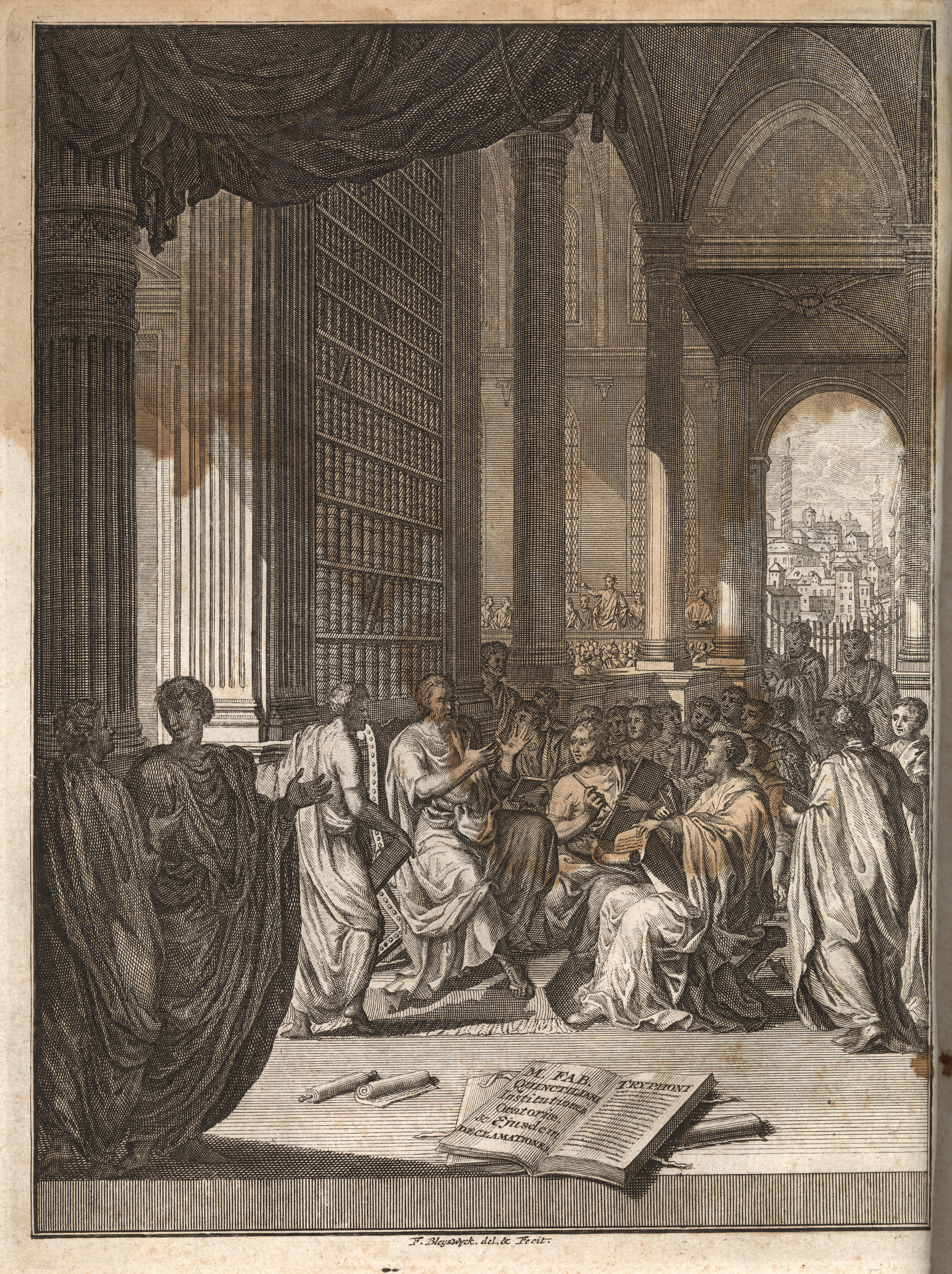 Frontispiece of Quintilian’s Institutio oratoria, ed. by Pieter Burman(n) the Elder, Leiden 1720. Full title: M. Fabii Quinc[!]tiliani de institutione oratoria libri duodecim, cum notis et animadversionibus virorum doctorum, summa cura recogniti et emendati per Petrum Burmannum. Lugduni Batavorum, Apud Joannem de Vivie, MDCCXX. The copper engraving by F. Bleyswyk shows Quintilian teaching rhetorics.